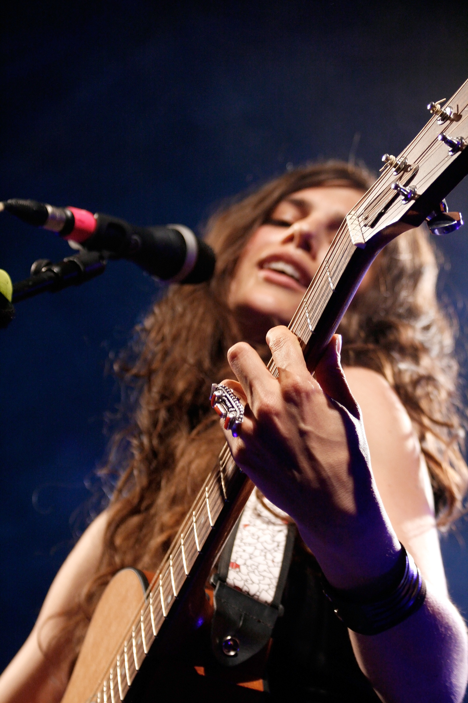 Anna F. - concert at the cultural center WUK in Vienna.